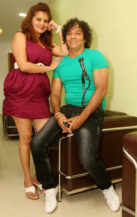 This is a picture of film director Kanti Shah with his girl friend Sapna.